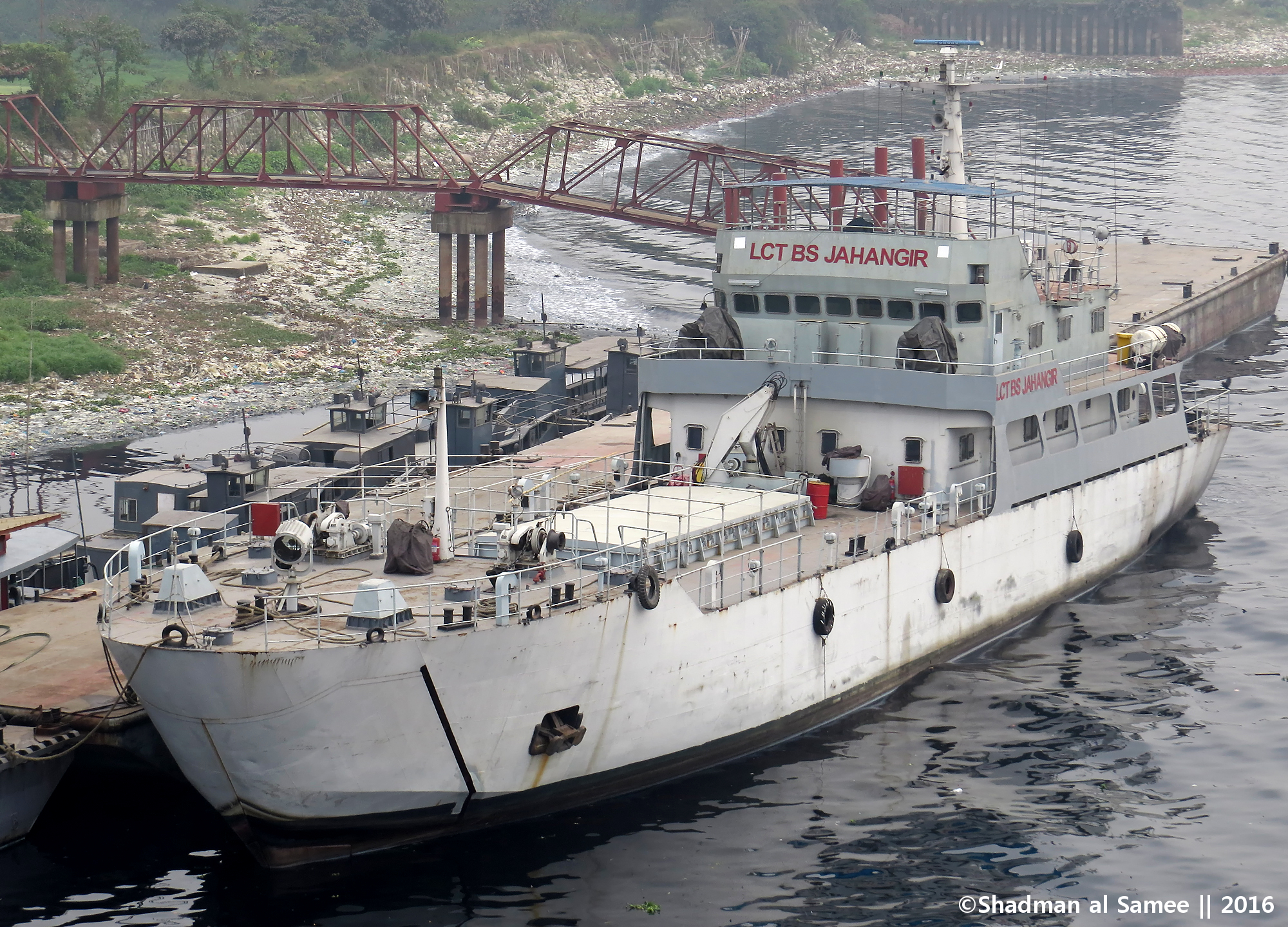 Postogola Cantt 2016 | Chinese Type 074-class landing ship (NATO reporting name: Yuhai-class)